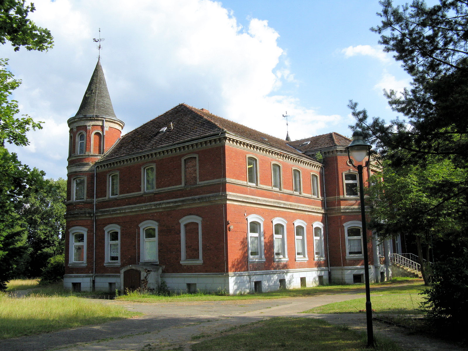 Manor house in Priborn, disctrict Müritz, Mecklenburg-Vorpommern, Germany